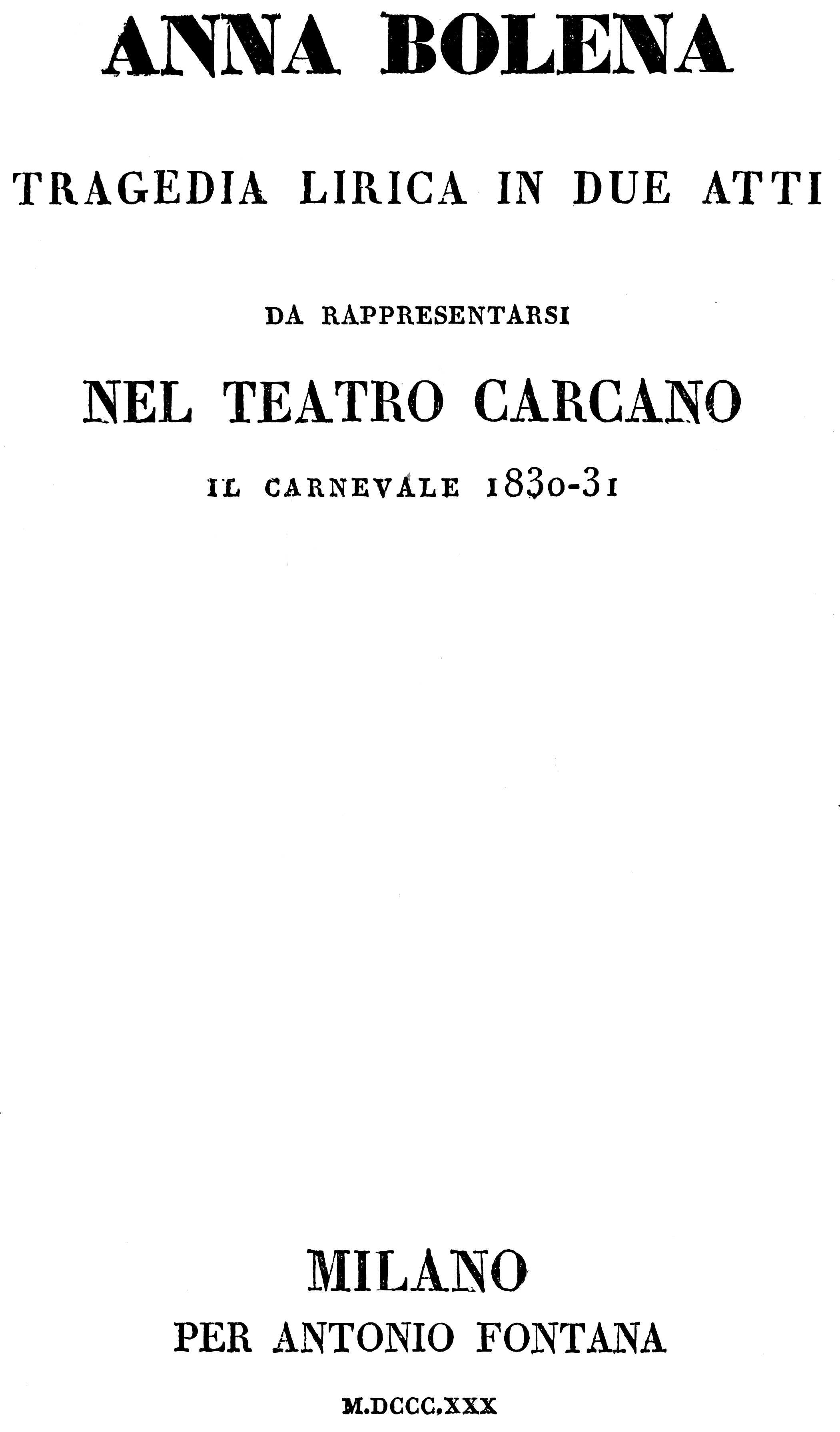 Gaetano Donizetti - Anna Bolena - titlepage of the libretto, Milan 1830